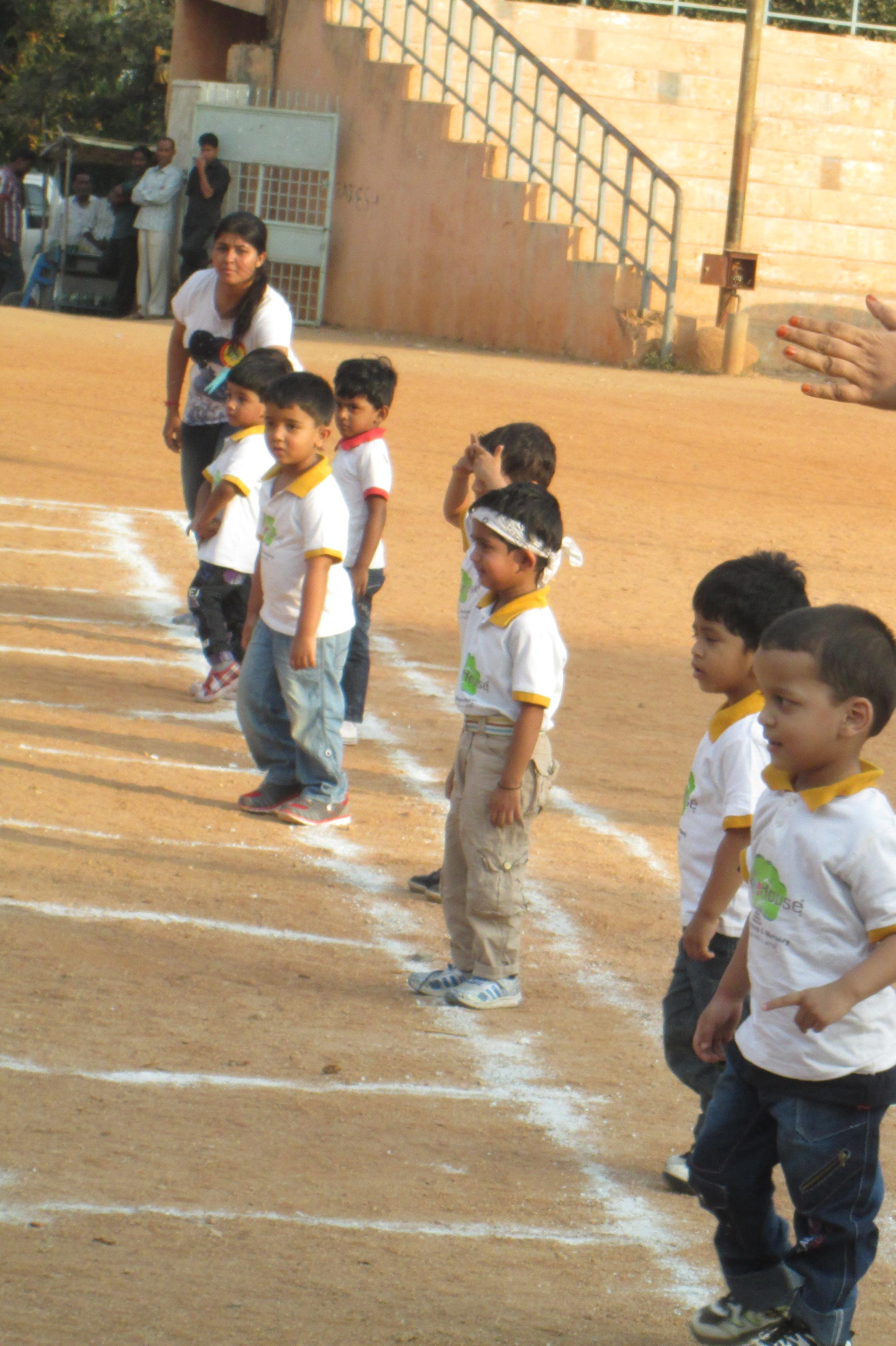 Sports Day of The Treehouse Play School, Hyderabad, on January 4, 2013